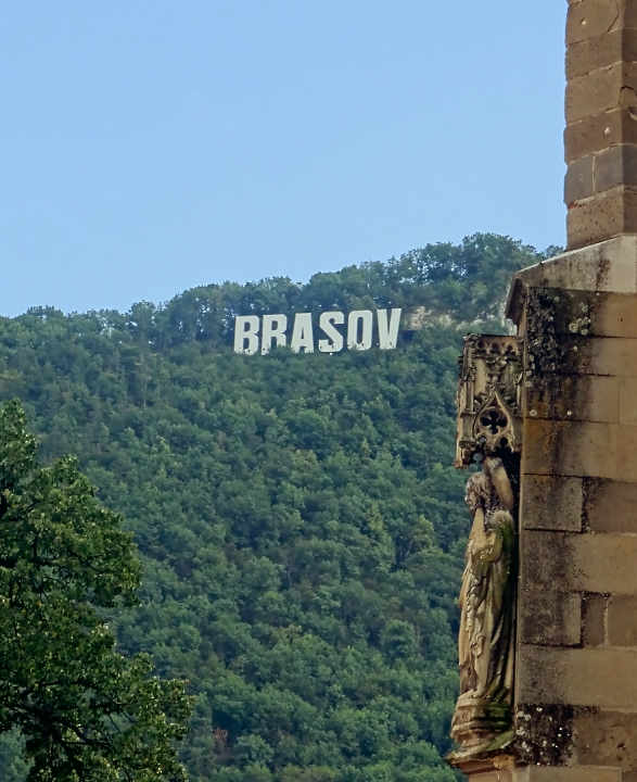 Tampa mountain in Brasov, Romania